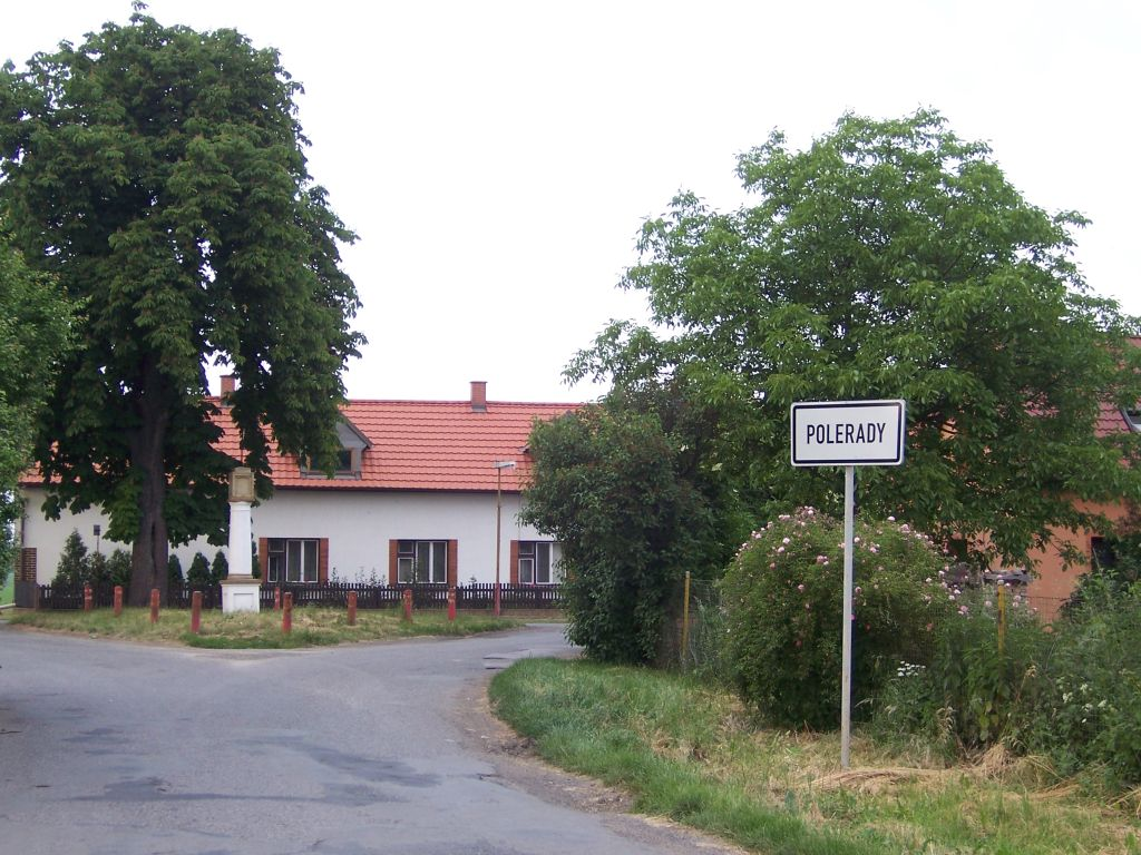 Polerady (Prague-East_District)